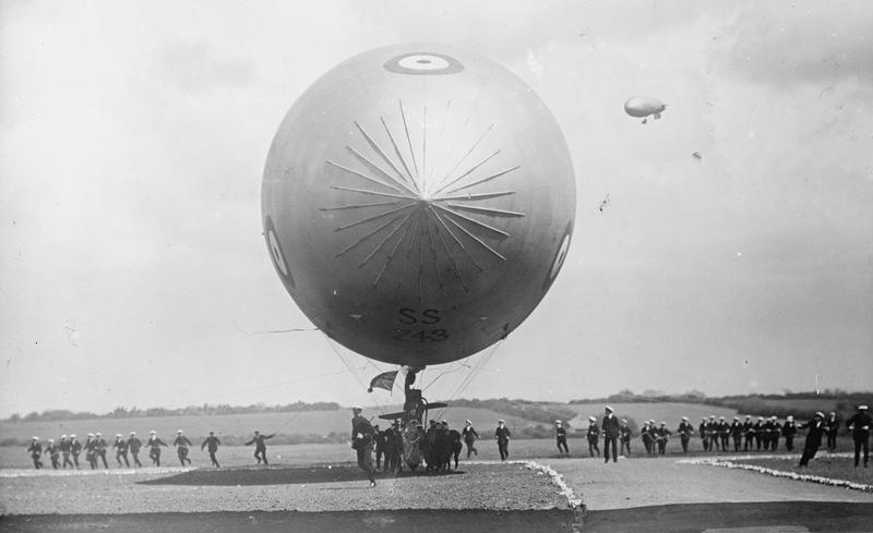 Photography Bringing a S. S. (Submarine Scout) airship after a patrol. Another S. S. 7. can be seen in the air.